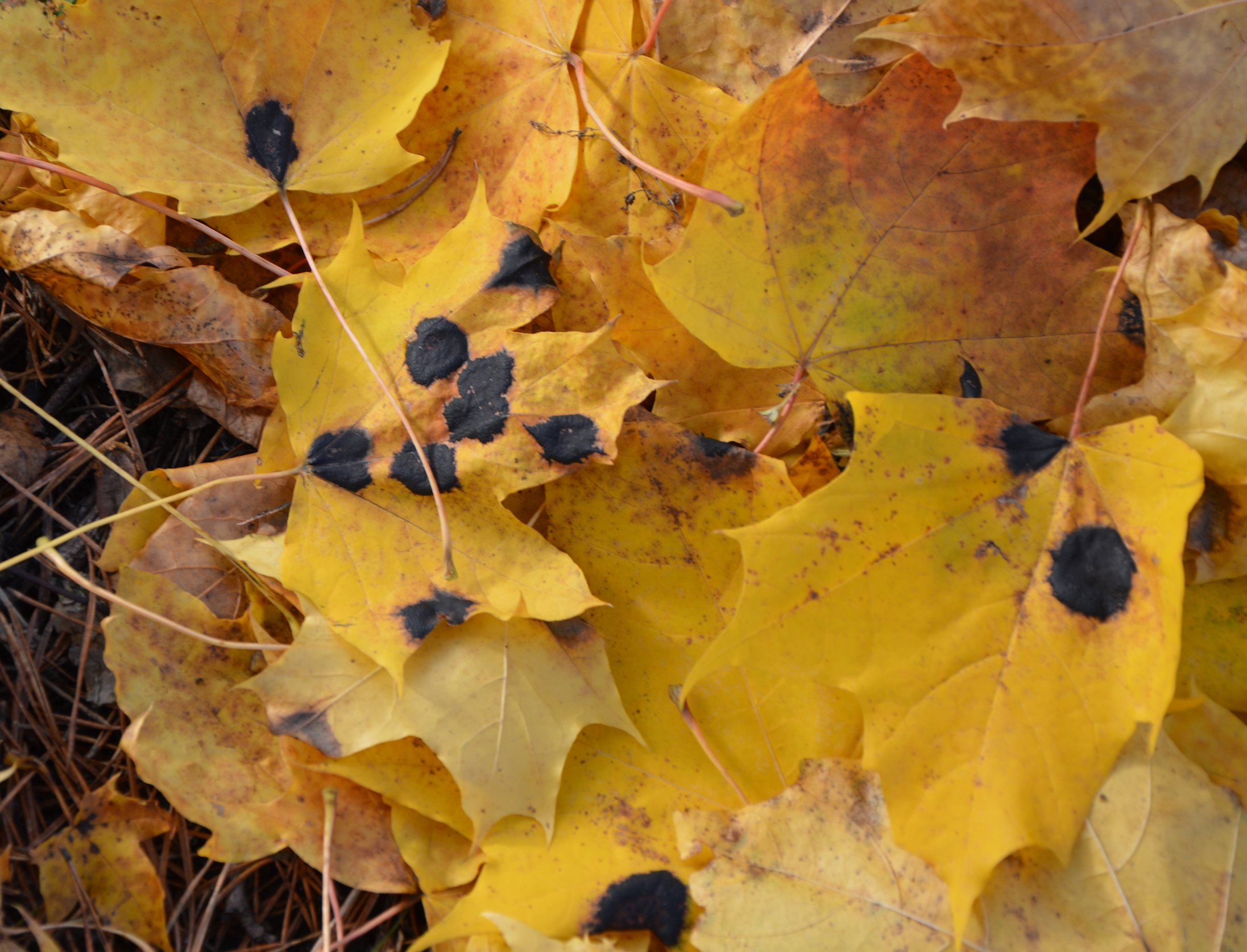 Rhytisma acerinum